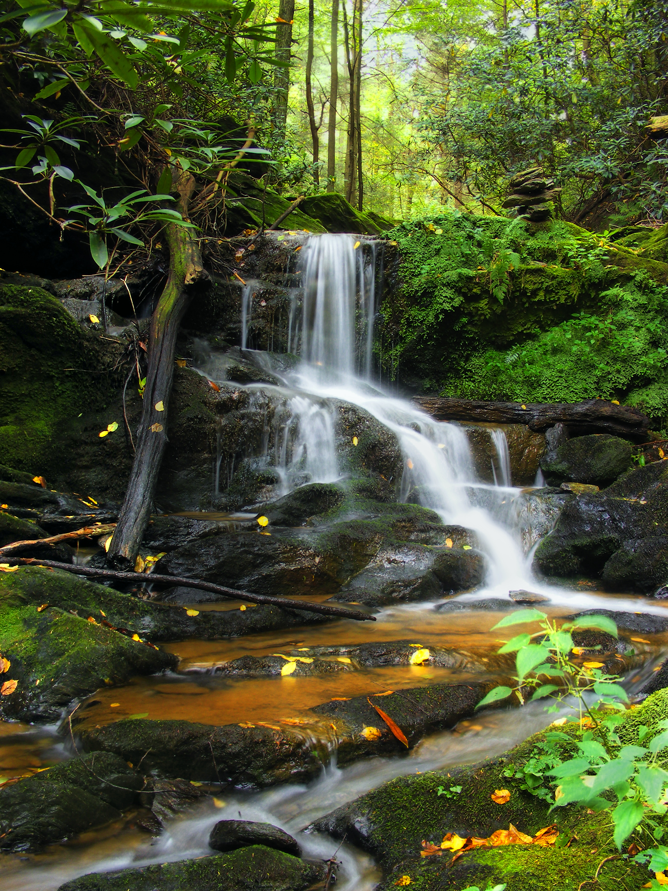 One of several Oakland Run waterfalls , York County, as seen from the Mason-Dixon Trail. En route to the Susquehanna River, the stream cascades through a deep, rhododendron-lined gorge. Adding to the scenic beauty is the surrounding old-growth forest of hemlocks and hardwoods.